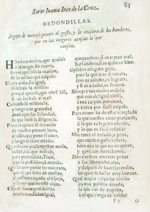 First volume of Works by Sor Juana Inés de la Cruz, 1714